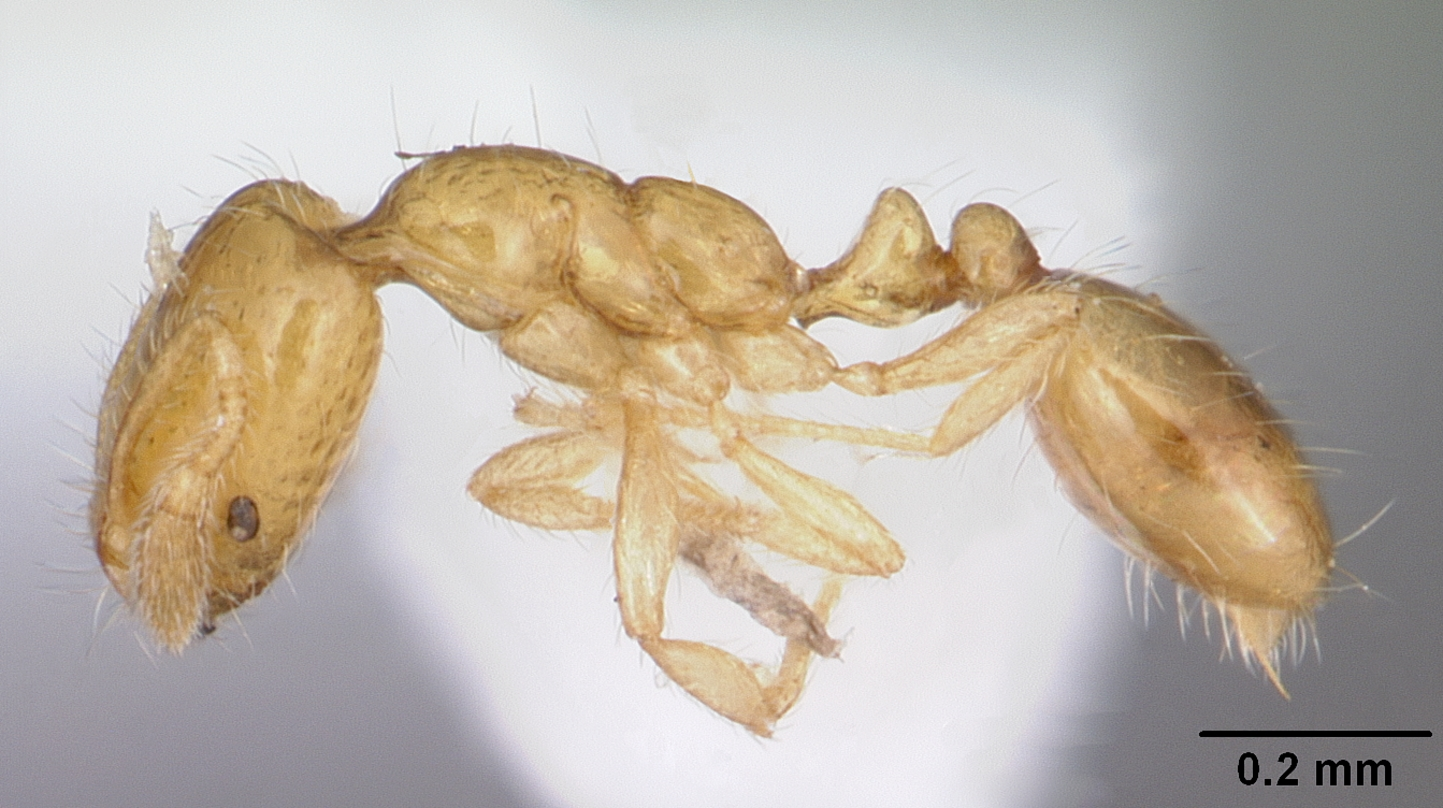 Profile view of ant Solenopsis corticalis specimen casent0104500.